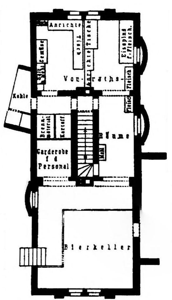 Layout of the basement in the left pavilion of Café Helms in Berlin, built 1882-1883.